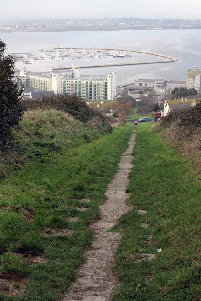 View down incline towards Portland Harbour